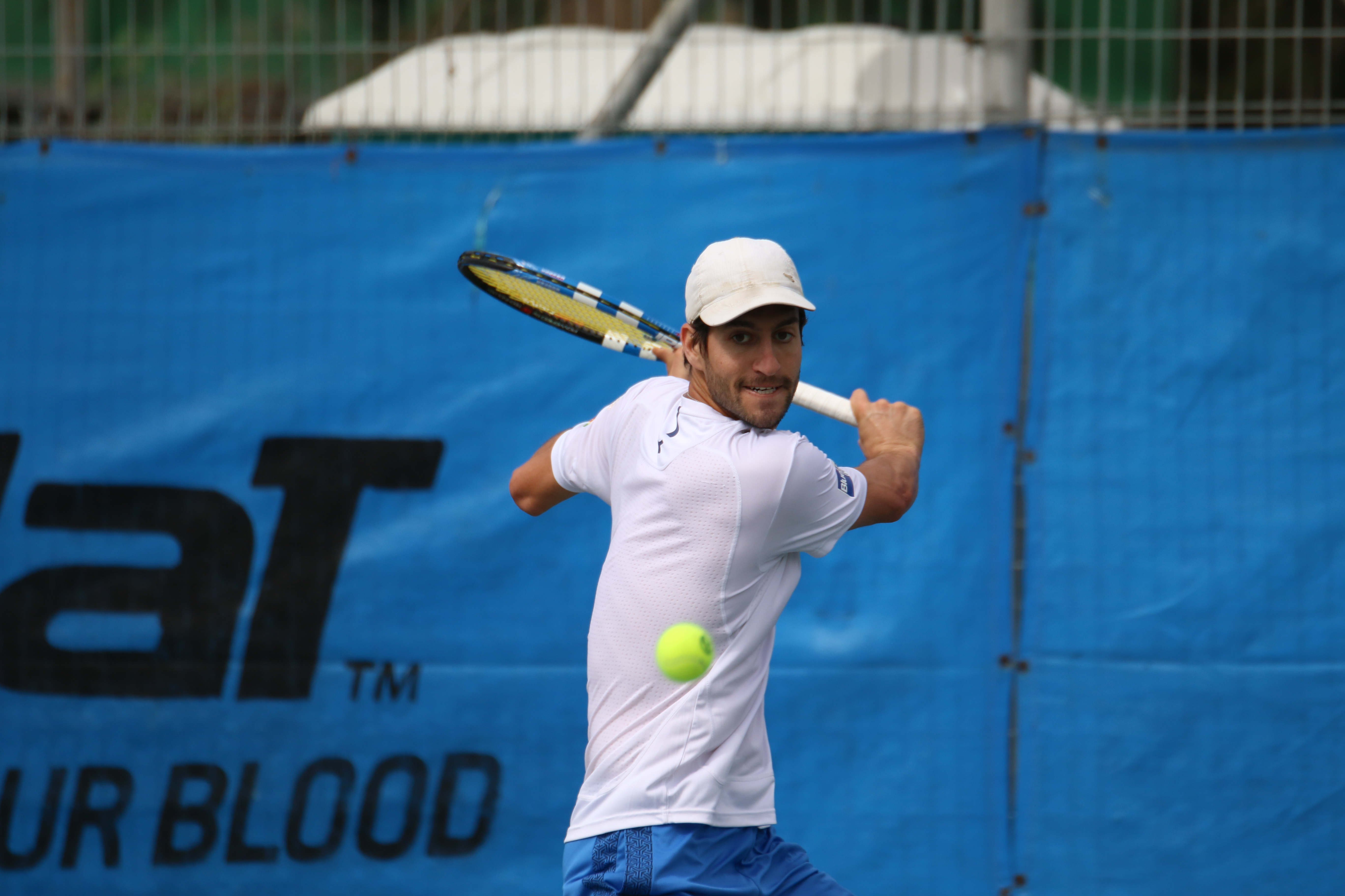 Amir Weintraub - Israel future F2